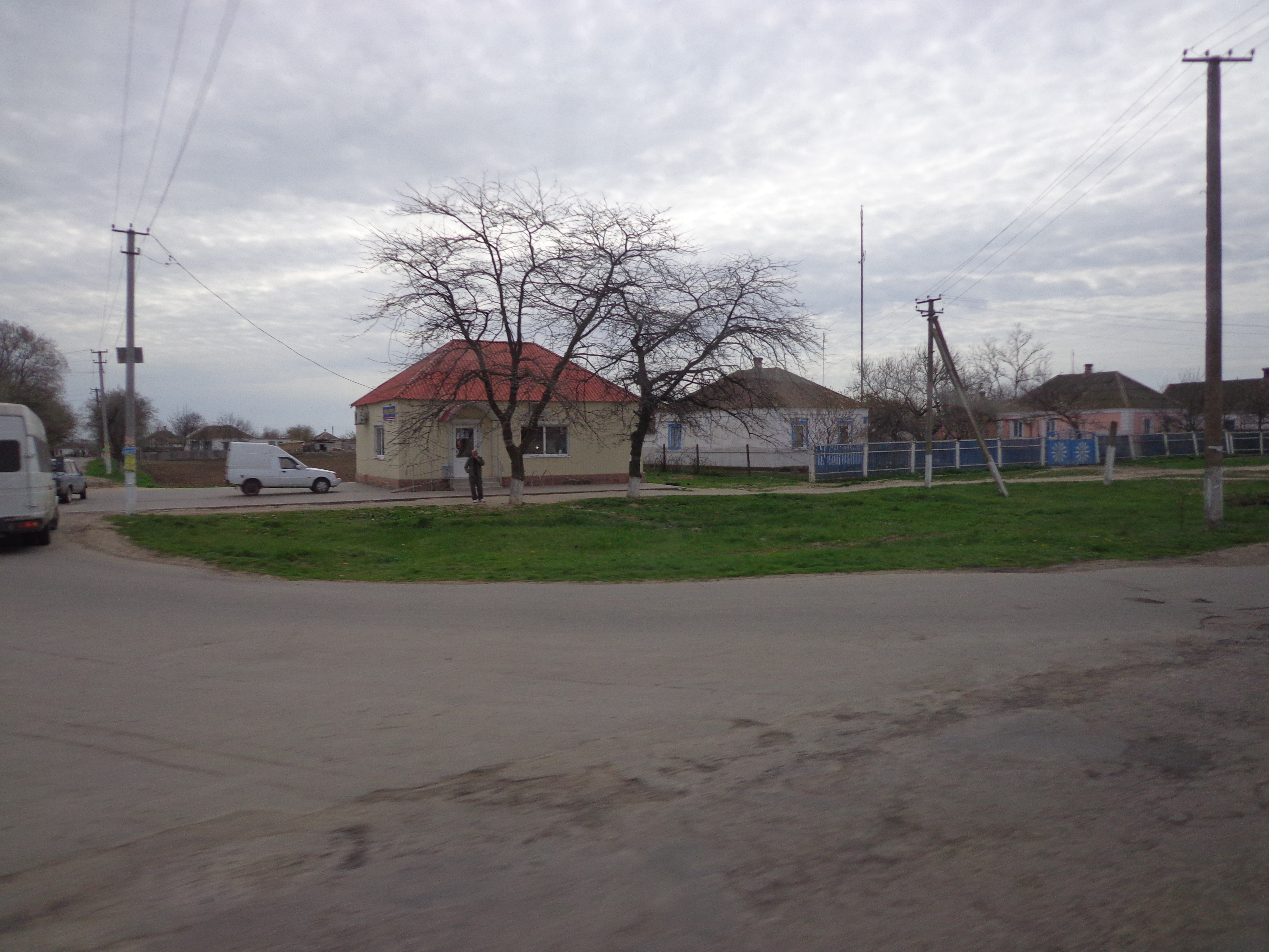 Village Frunze, Henichesk Raion, Kherson Oblast, Ukraine. View from the road